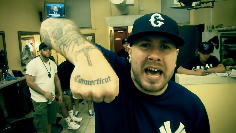 Apathy 2014